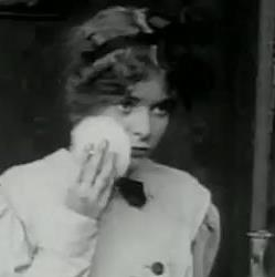 Blanche Sweet in a scene from the movie The Painted Lady (1912, directed by David Wark Griffith).